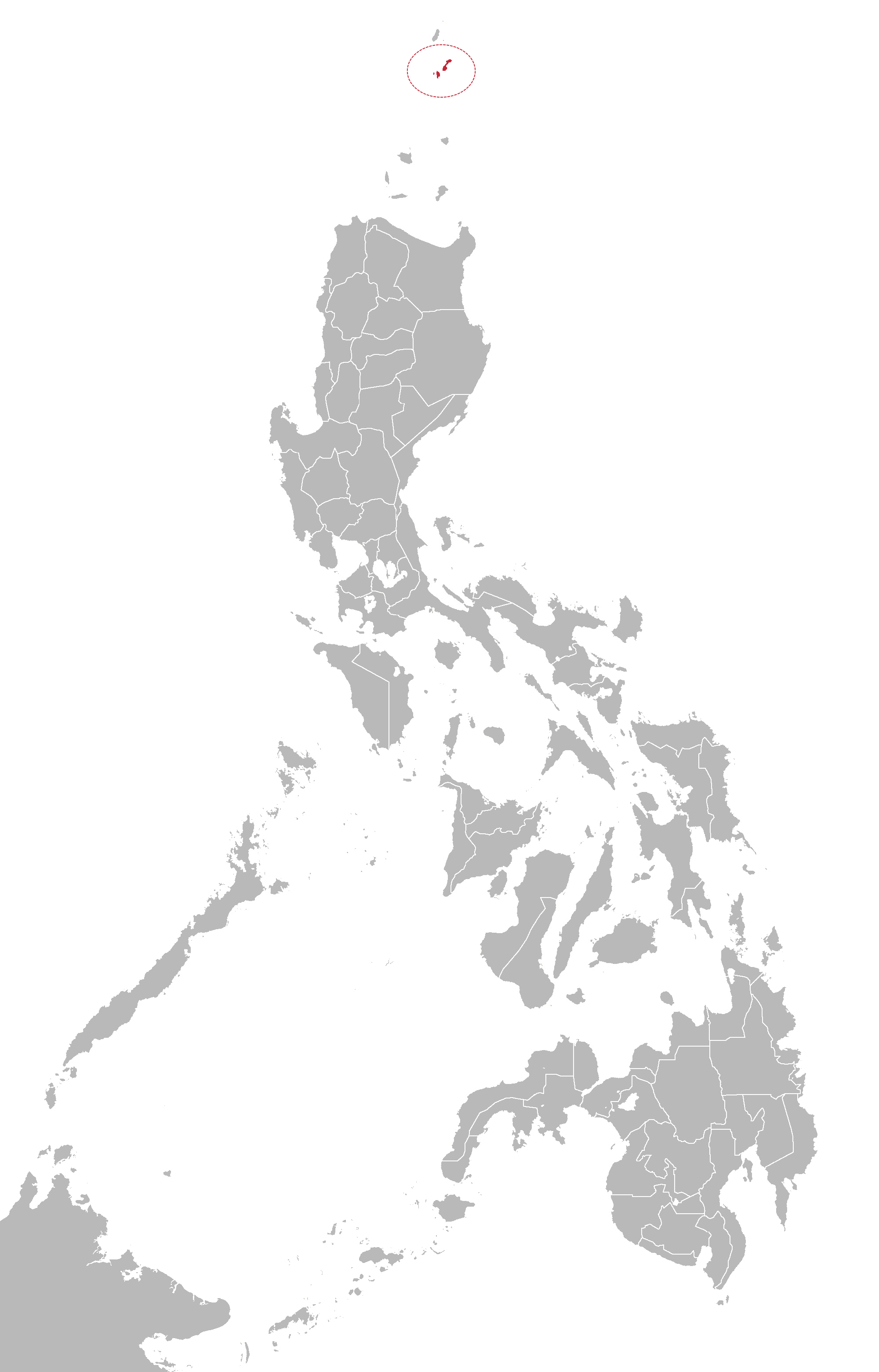 Ivatan language map based on Ethnologue maps